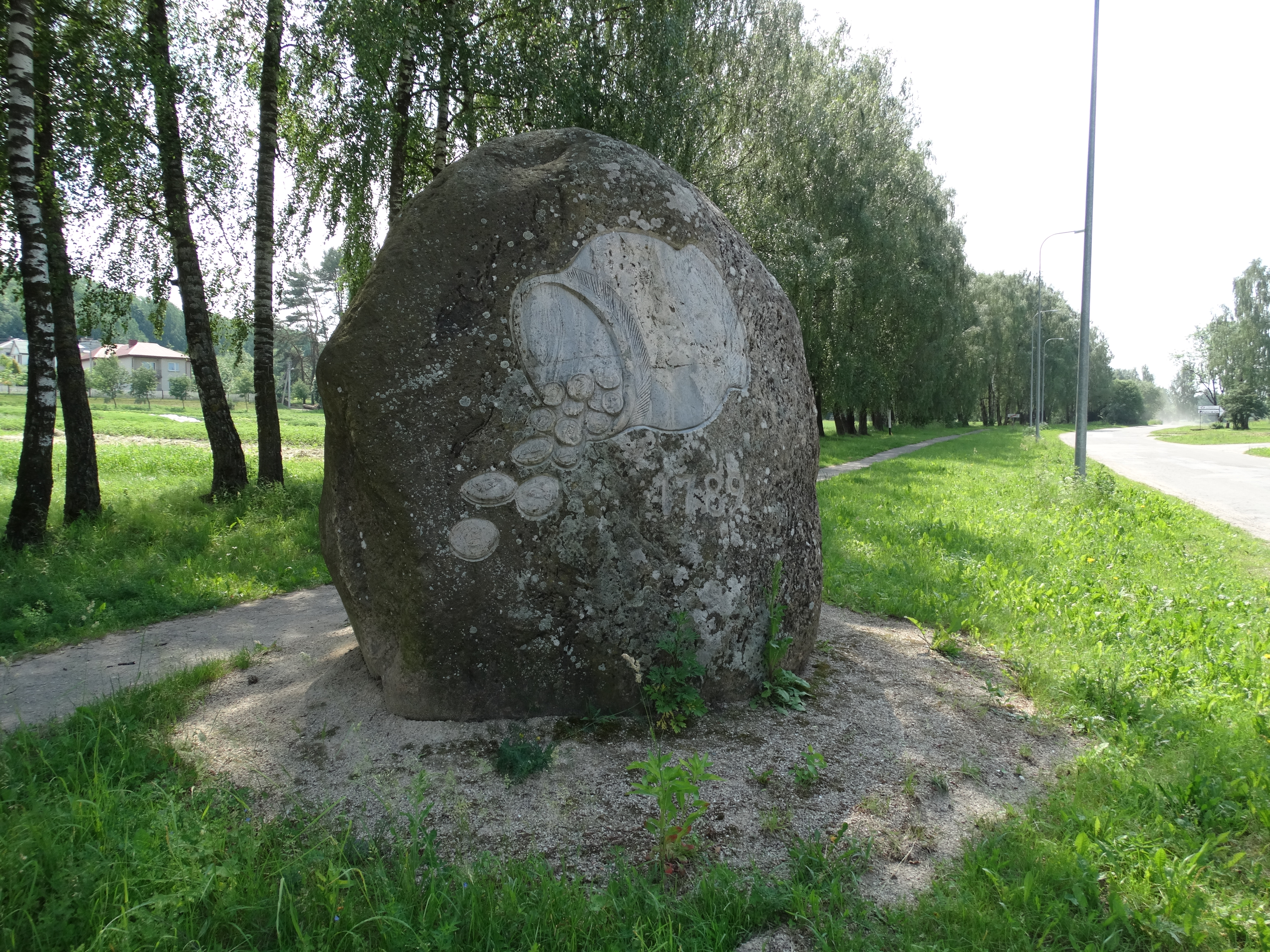 Stone in Varinė, Ukmergė District, Lithuania